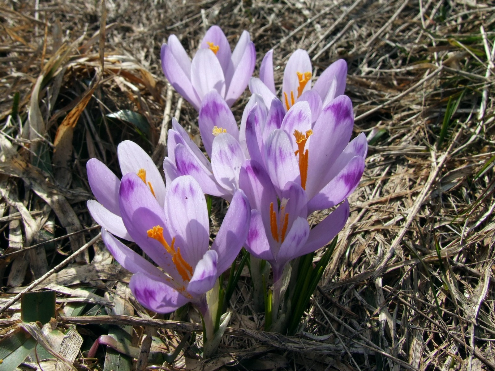 Crocus vernus, syn. C. scepusiensis. Hala Długa, Gorce, Poland.